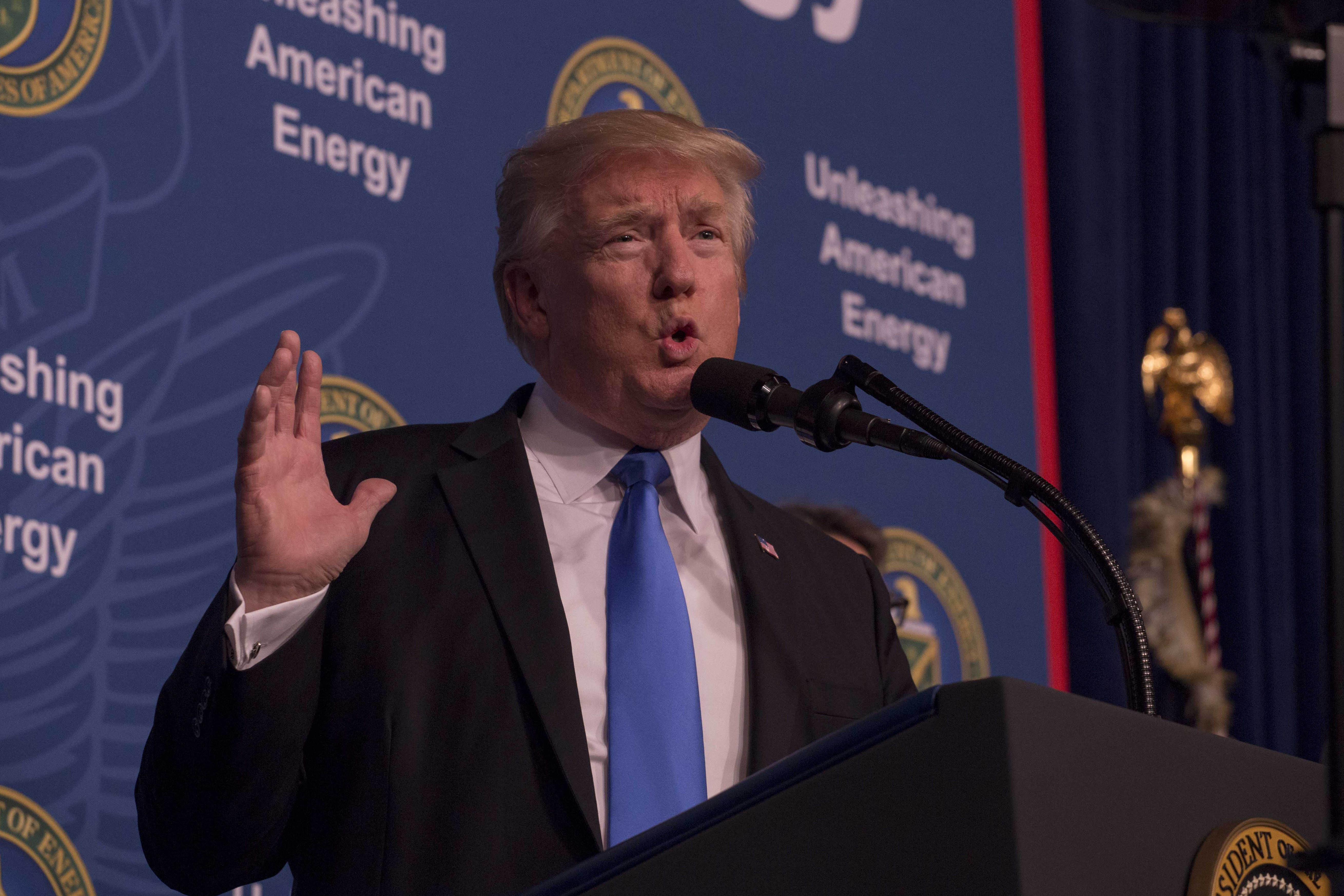 President Donald Trump give remarks at the Unleashing American Energy event at Energy Department headquarters. June 29, 2017 Photo Simon Edelman, Energy Department